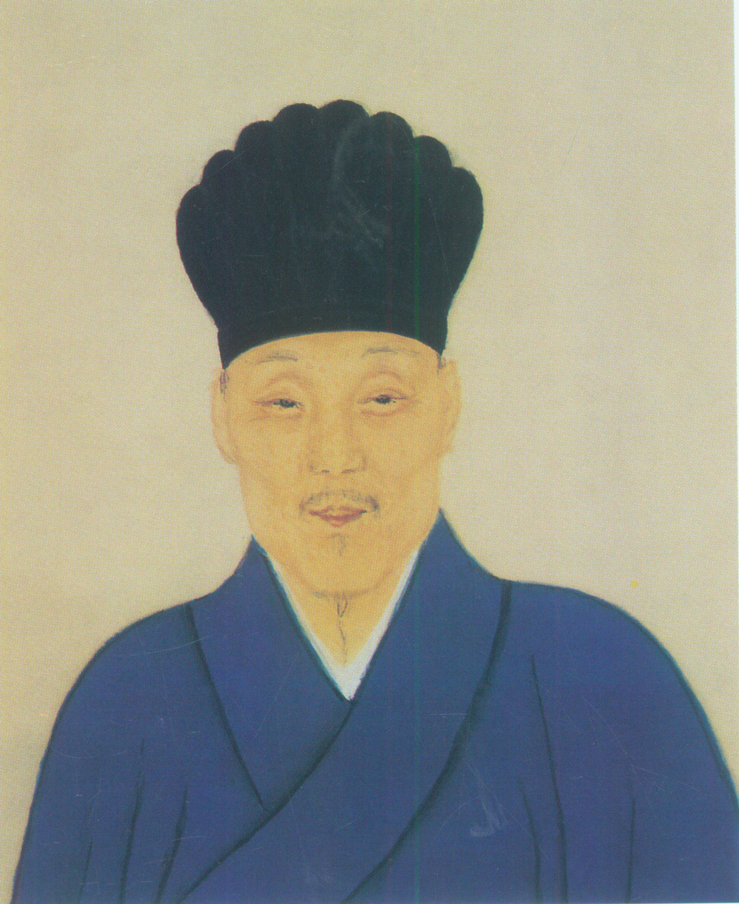 Zheng Jing (Chinese: 鄭經; Pe̍h-ōe-jī: Tēⁿ Keng; 25 October 1642 – 17 March 1681), courtesy names Xianzhi (賢之) and Yuanzhi (元之), pseudonym Shitian (式天), was a 17th-century Chinese warlord and Ming Dynasty loyalist. He was the eldest son of Koxinga (Zheng Chenggong) and a grandson of the pirate-merchant Zheng Zhilong. After the conquest of Fort Zeelandia in 1662 by his father, Zheng Jing controlled the military forces in Xiamen and Quemoy on his father's behalf. Upon the death of his father six months later, Zheng Jing contested throne as the King of Tungning with his uncle, Zheng Shixi. The dispute was resolved in Zheng Jing's favor after he successfully landed an army in Taiwan despite strong opposition by the forces of his uncle. This was followed by Zheng Shixi withdrawing his claim.